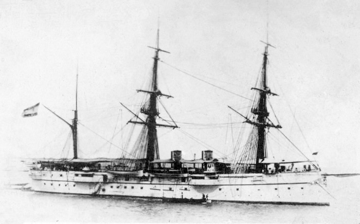 A Castilla-class cruiser, possibly Aragon herself, in the 1880s or 1890s